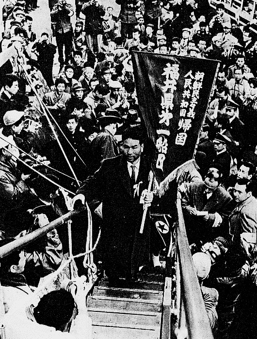 Repatriation of Koreans from Japan